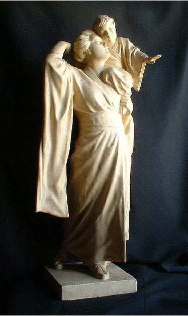 "Butterfly", sculpture of Leone Tommasi.